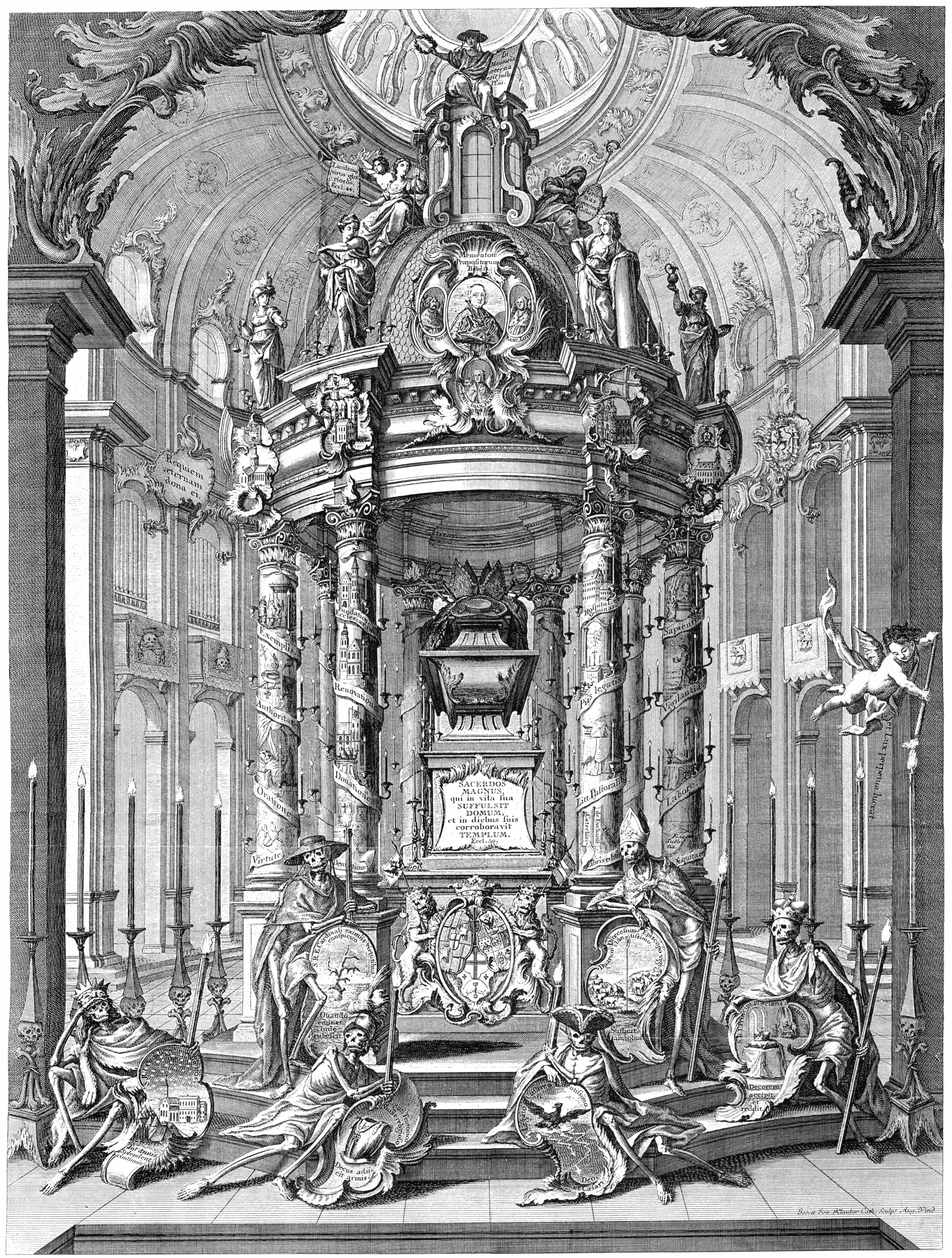 Joseph and Johannes Klauber: Cenotaph for Cardinal Damian Hugo von Schönborn, Bishop of Konstanz. Printed in Thaddäus Kofler: Neu aufgerichtetes Ehren-Grab. Ellwangen s.a. Fürstlich Waldburg-Zeil'sches Archiv, Schloss Zeil